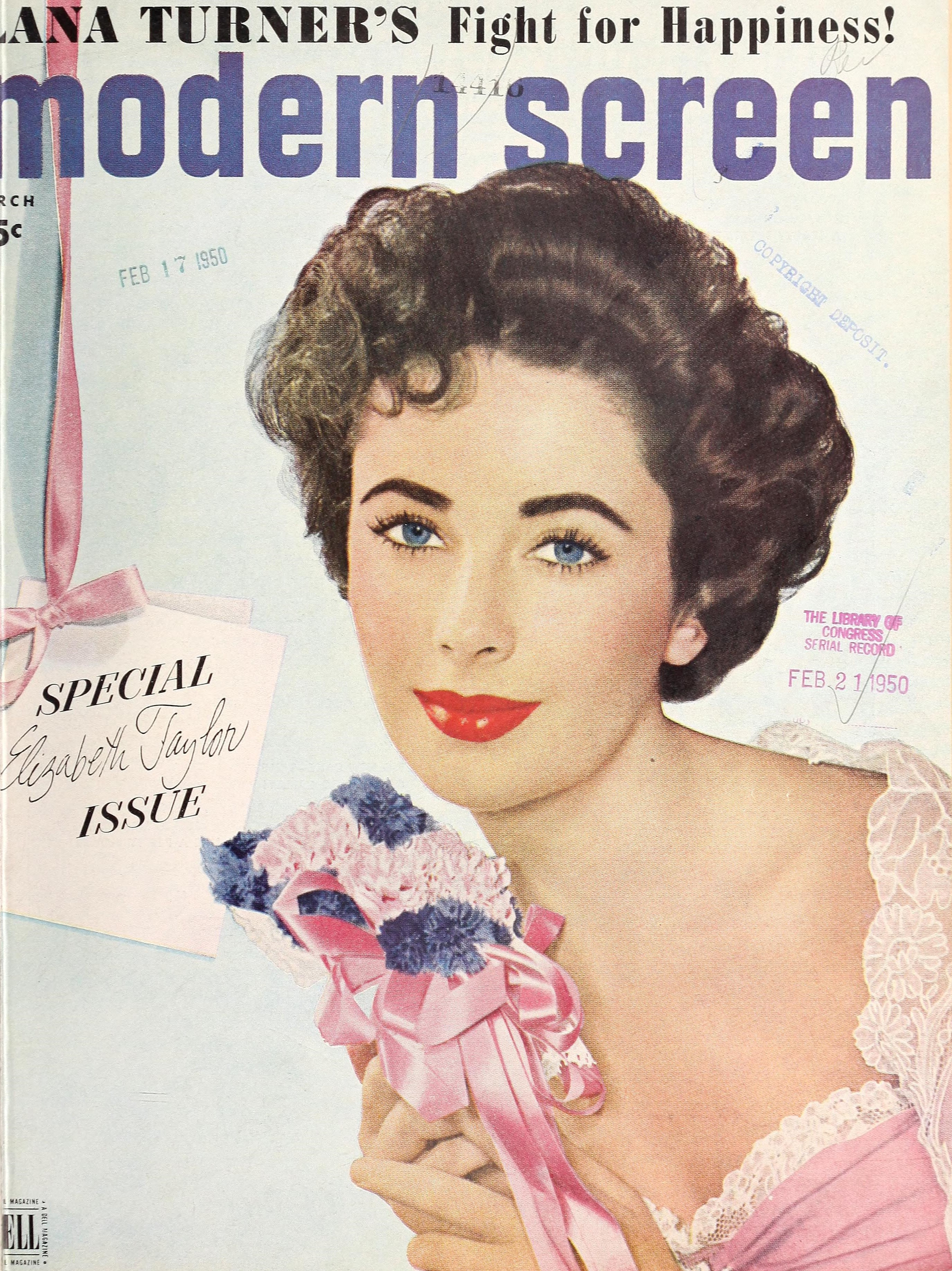 Cover of Modern Screen, March 1950 with a photograph of Elizabeth Taylor by Nickolas Muray